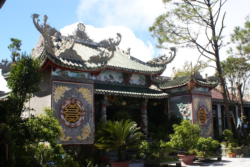 Linh Ung Pagoda